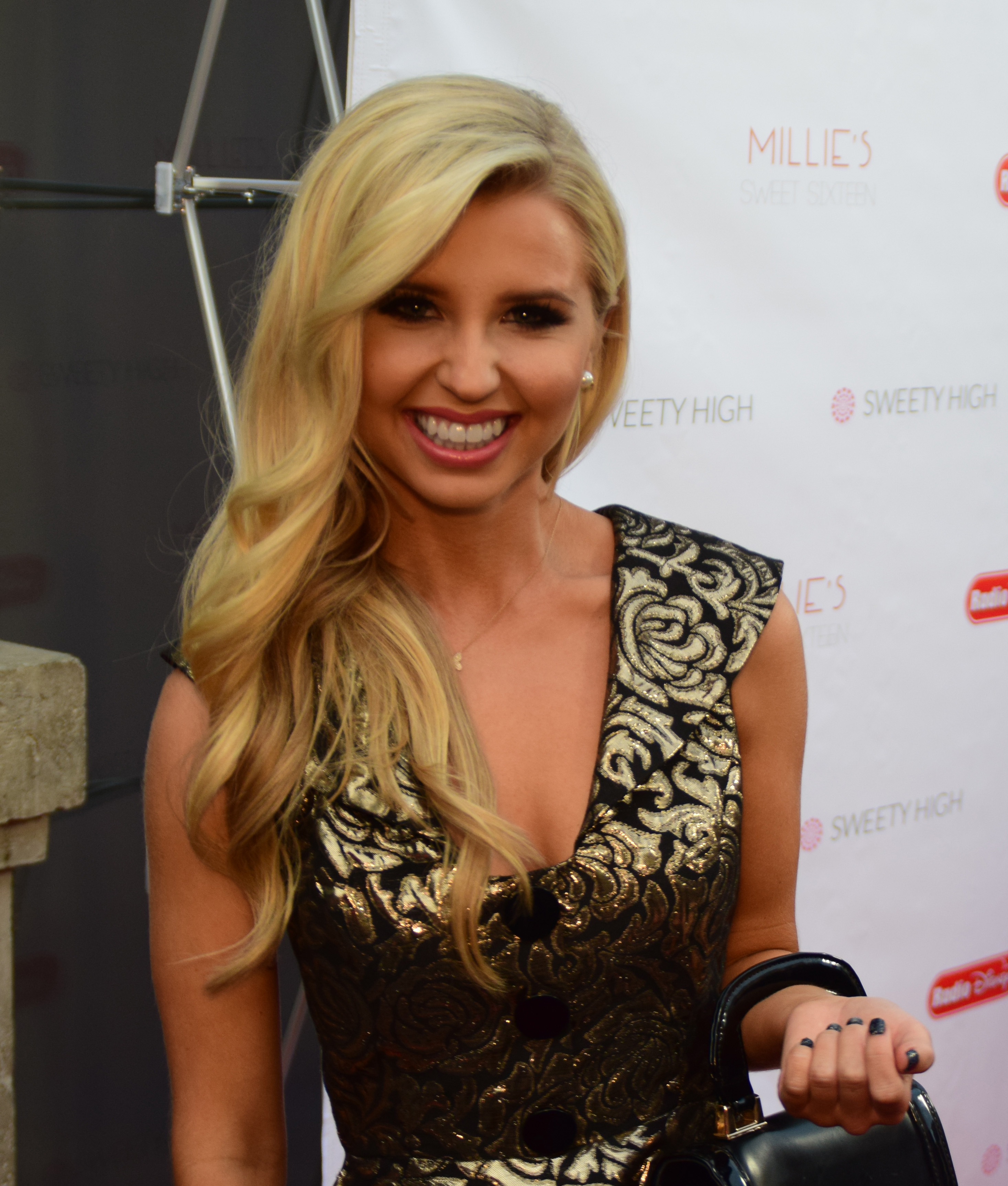 Tiffany Houghton in June 2015